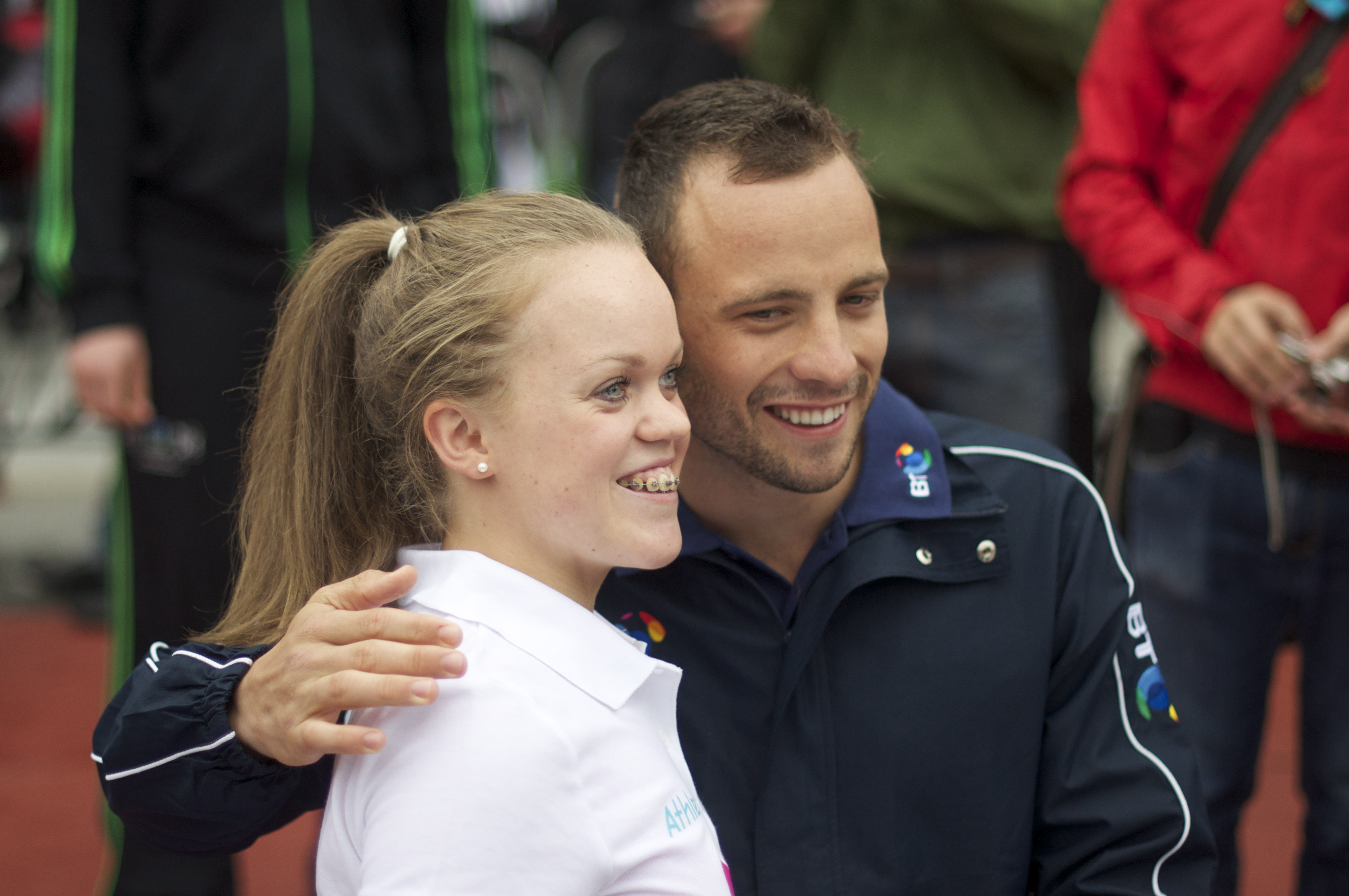 British Paralympic swimmer Eleanor Simmonds and South African Olympic and Paralympic runner Oscar Pistorius at the International Paralympic Day event in Trafalgar Square, London, UK.